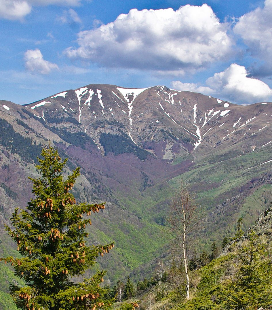 Levski peak, Cetral Balkan mountains